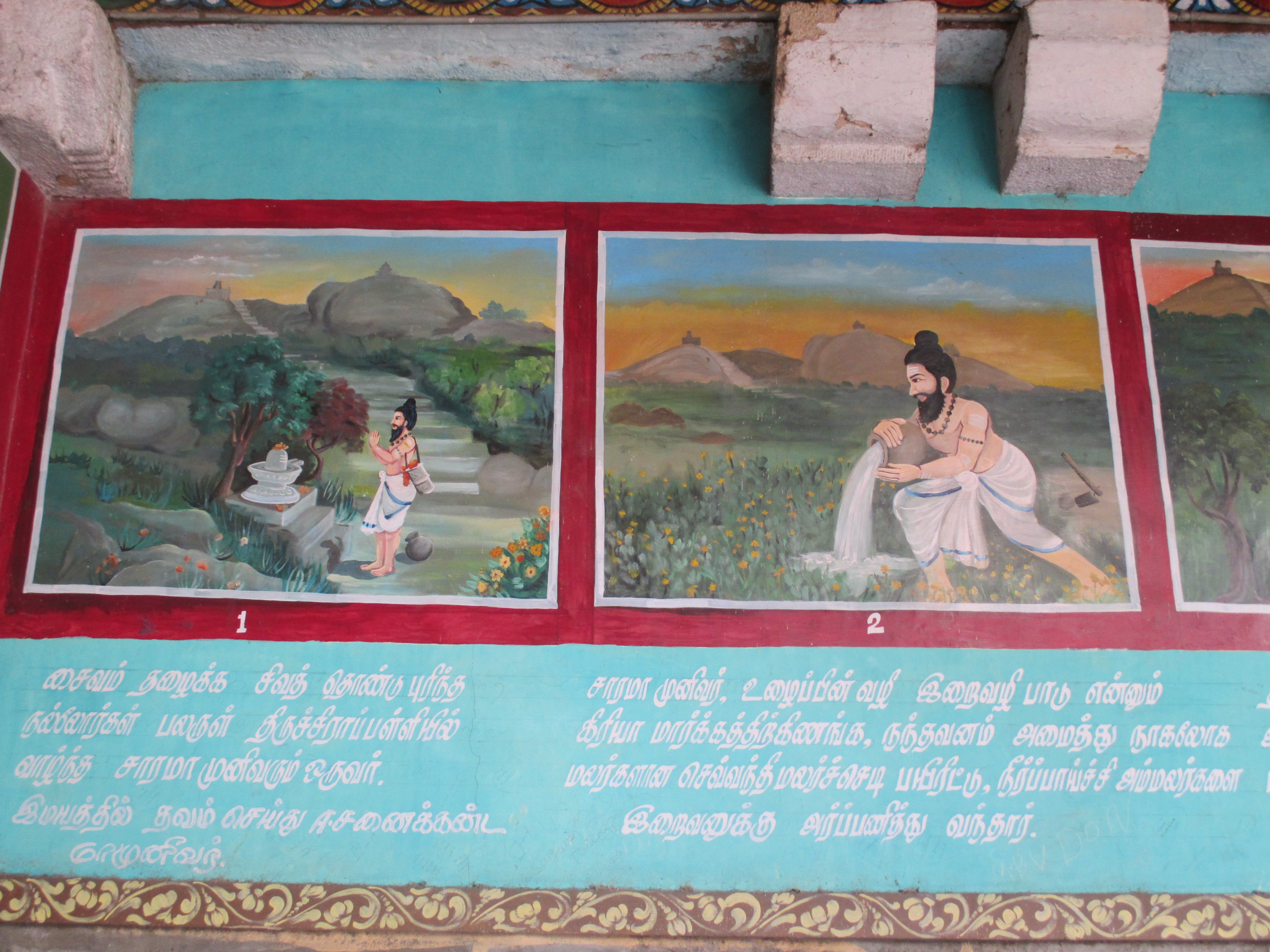 Thayumanavar Temple